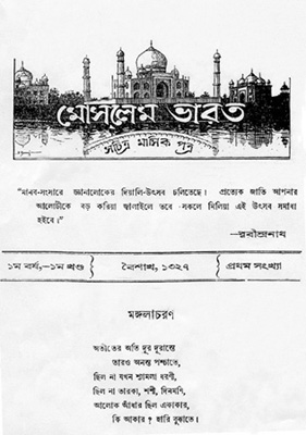 Provided by the grand child of Afzal Ul Haque (Son of Md.Mozammel Haque )..